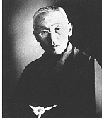 I Kyosso photography, religious leader from Perfect Liberty Church